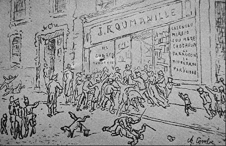 Sketch by Charles-François Combe : this is the bookshop of Joseph Roumanille, located in Avignon, rue Saint-Agricol [closed in 1997].